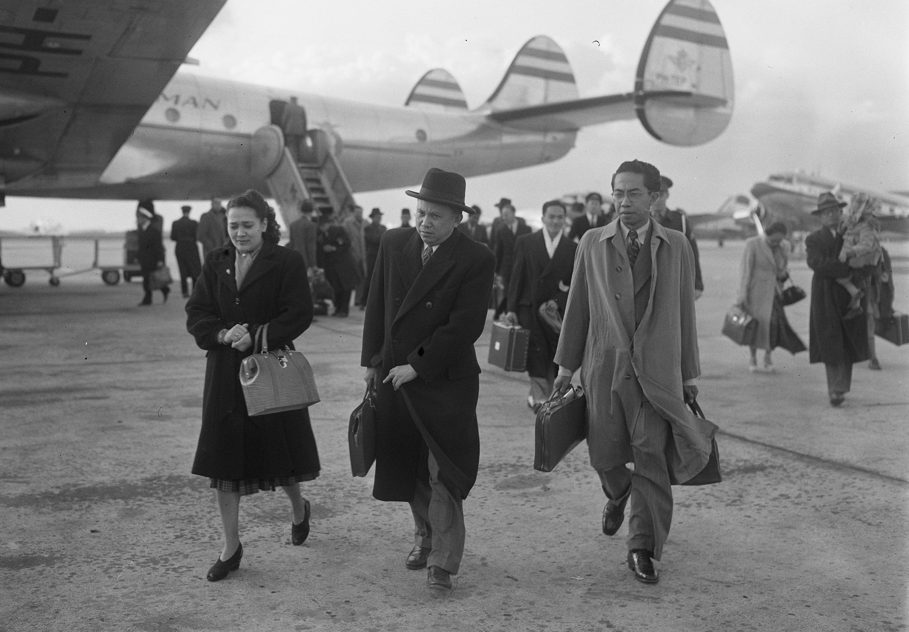 L.N. Palar (middle) arriving at Amsterdam Airport Schiphol on 25 April 1950.